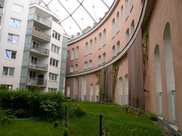 Gasometer D in Vienna, Austria